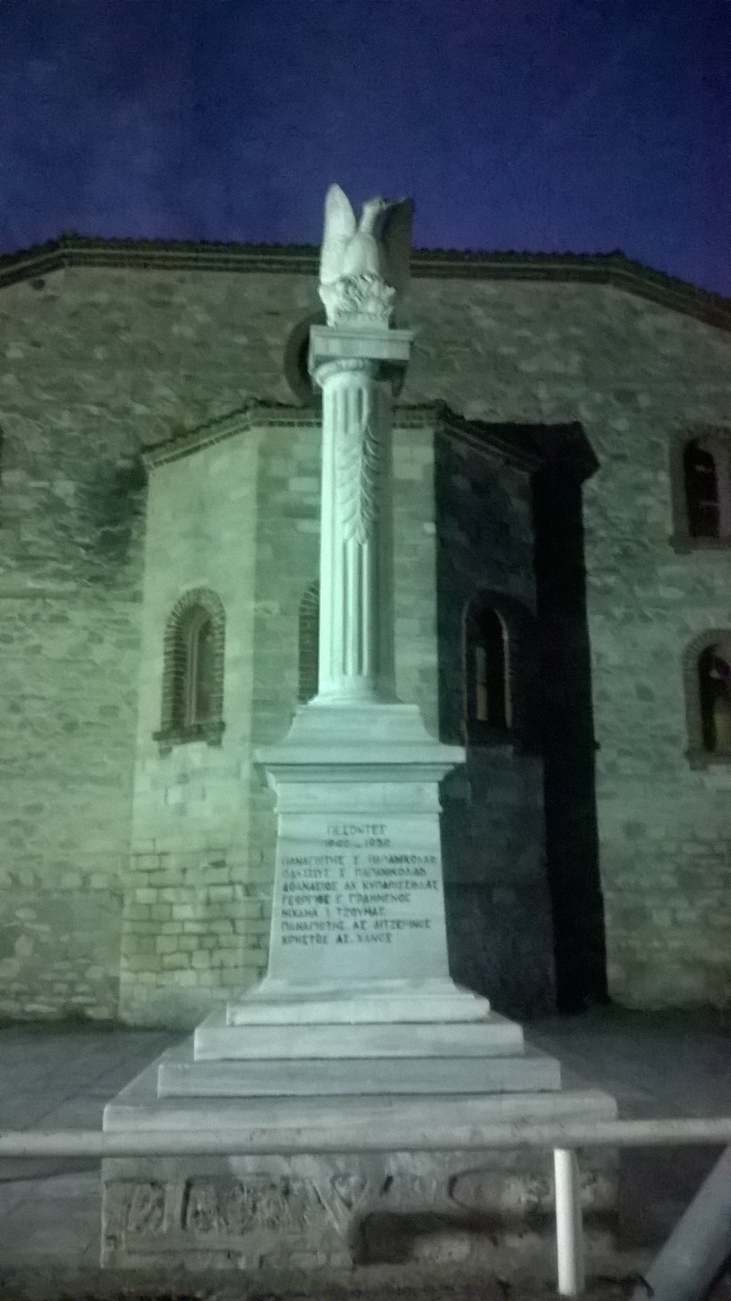 Monument of the fallen of Fourka Halkidiki during 1940 - 1950